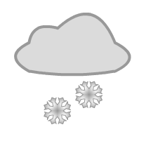 cloud, snow, weather forecast symbol